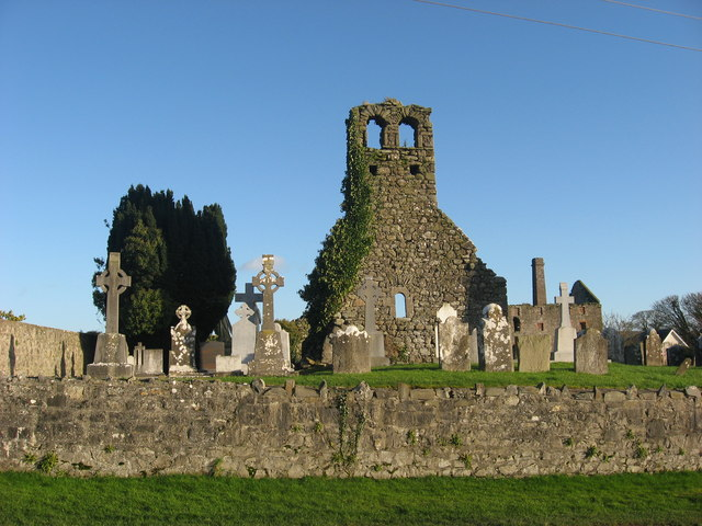 Church at Monknewtown, Co. Meath West gable, with double belfry, of the ruined medieval church. In background at right are the ruins of Rossin Mill, a flax mill on the River Mattock.